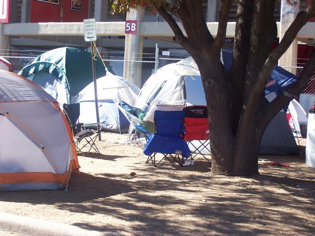 Photo Credit: O'Jay Barbee Raiderville outside of Jones AT&T Stadium at Texas Tech University in Lubbock, Texas prior to the 2008 game against #8 Oklahoma State